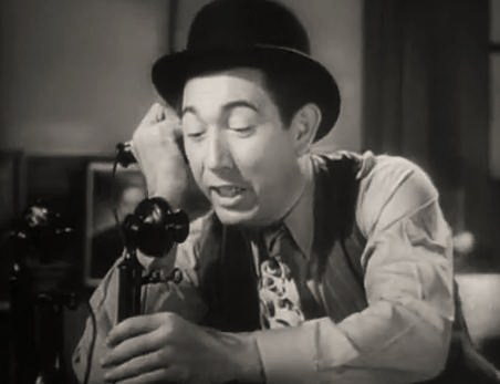 Rags Ragland in Ringside Maisie - trailer (cropped screenshot)